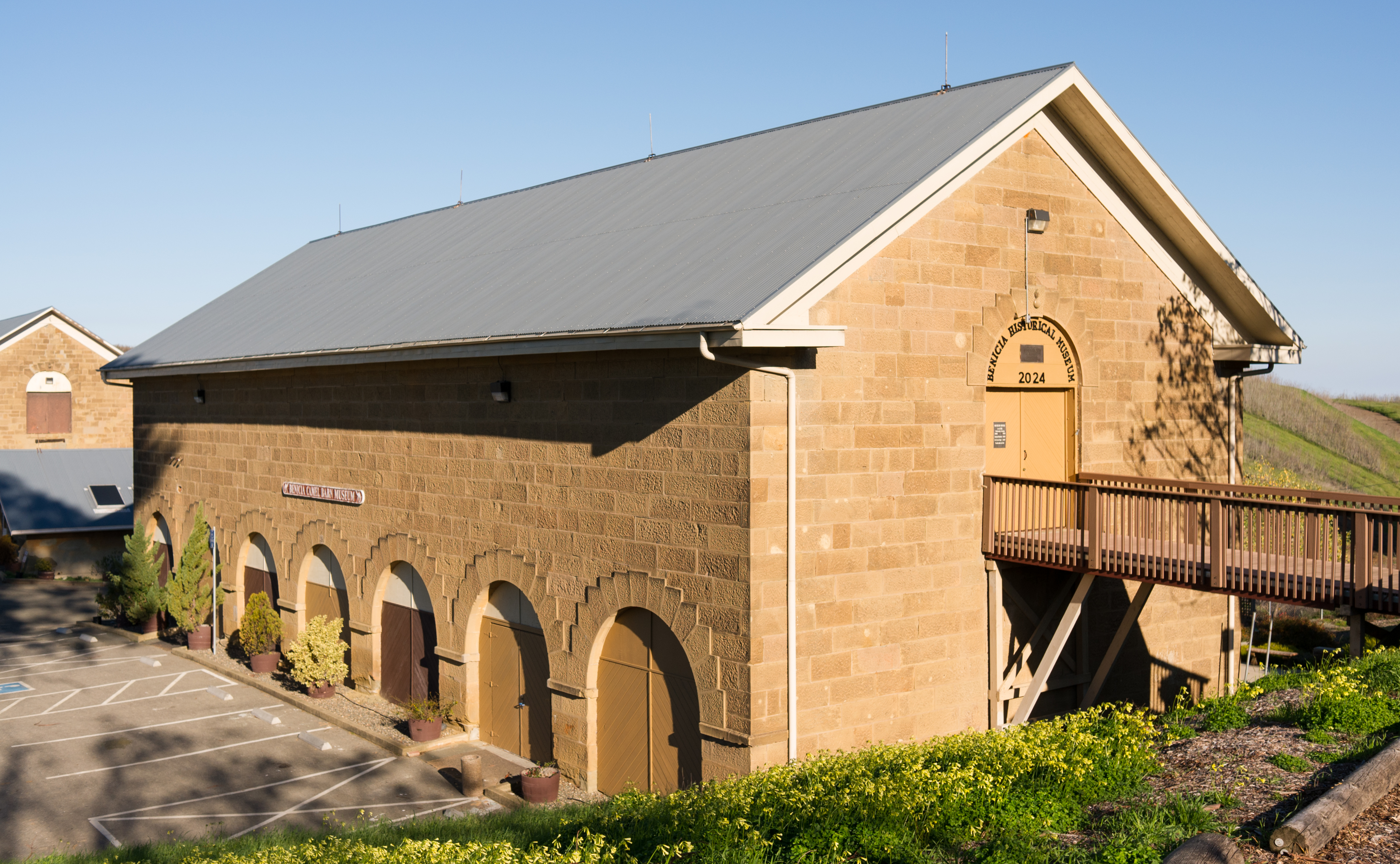 Benicia Historical Museum at the Camel Barns, 2060 Camel Rd., Benicia, California